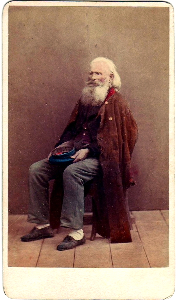 Carlo Ponti (ca. 1823-1893) - An Italian beggar. Hand-tinted photograph.